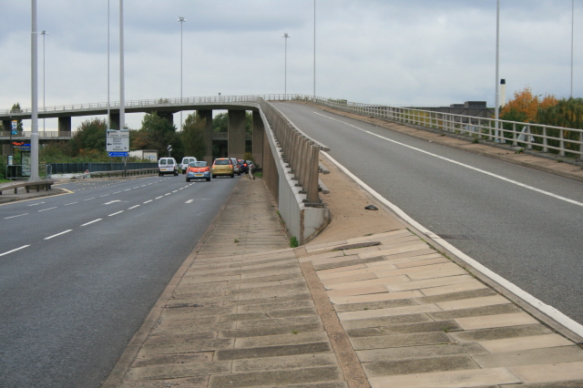 Flyover and Ramp This single lane ramp allows city-bound traffic on the A453 to avoid the roundabout at the junction of Queens Drive and Clifton Boulevard.